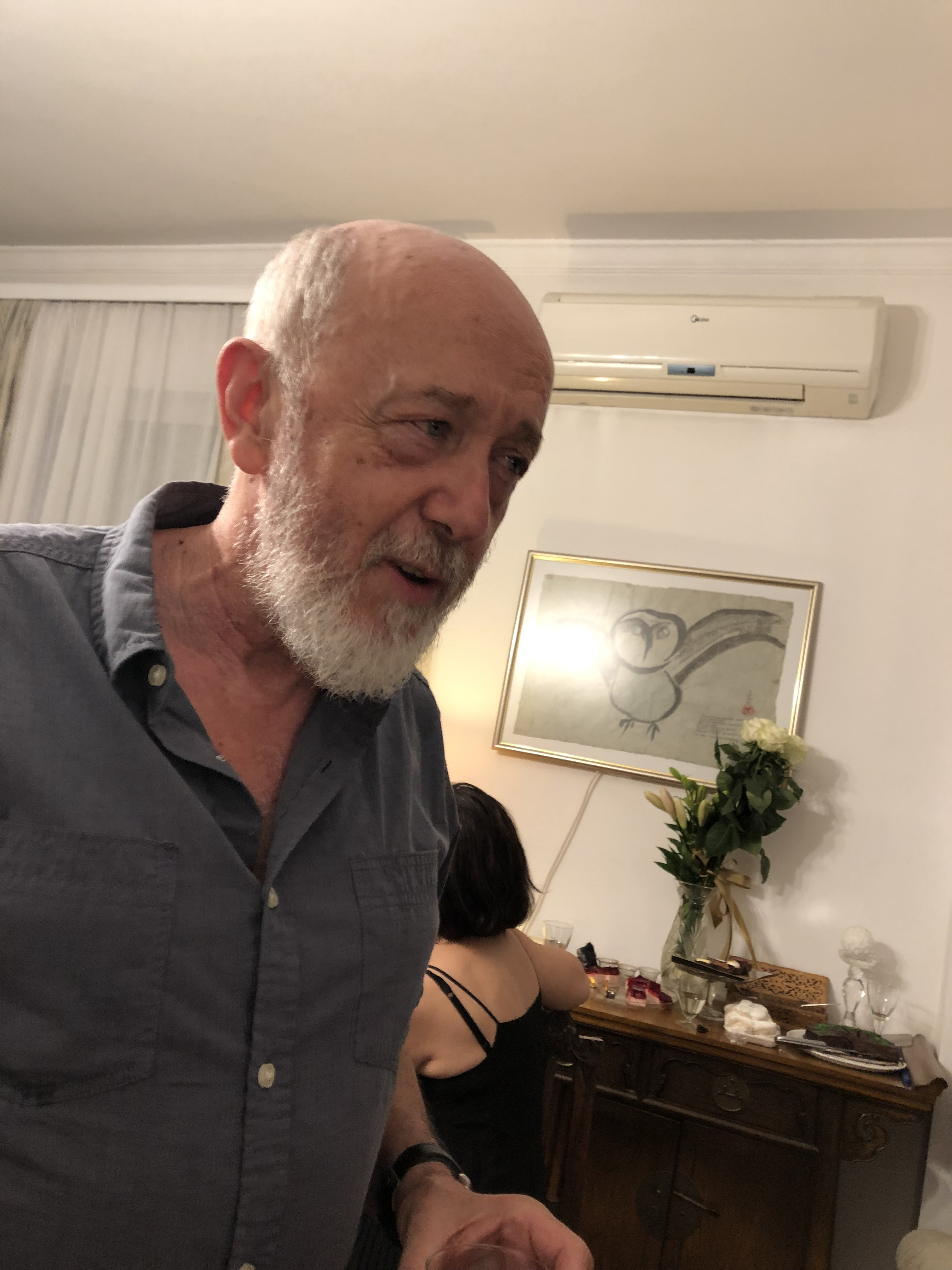 Stoian Alexiev - Bulgarian actor - June 2019